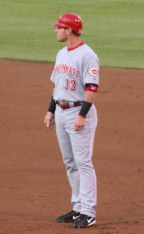 Josh Hamilton